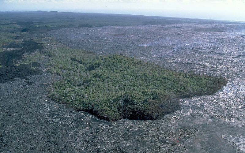 This kipuka formed during the Pu`u `O`o-Kupaianaha eruption on the east rift zone of Kilauea Volcano, Hawai`i.